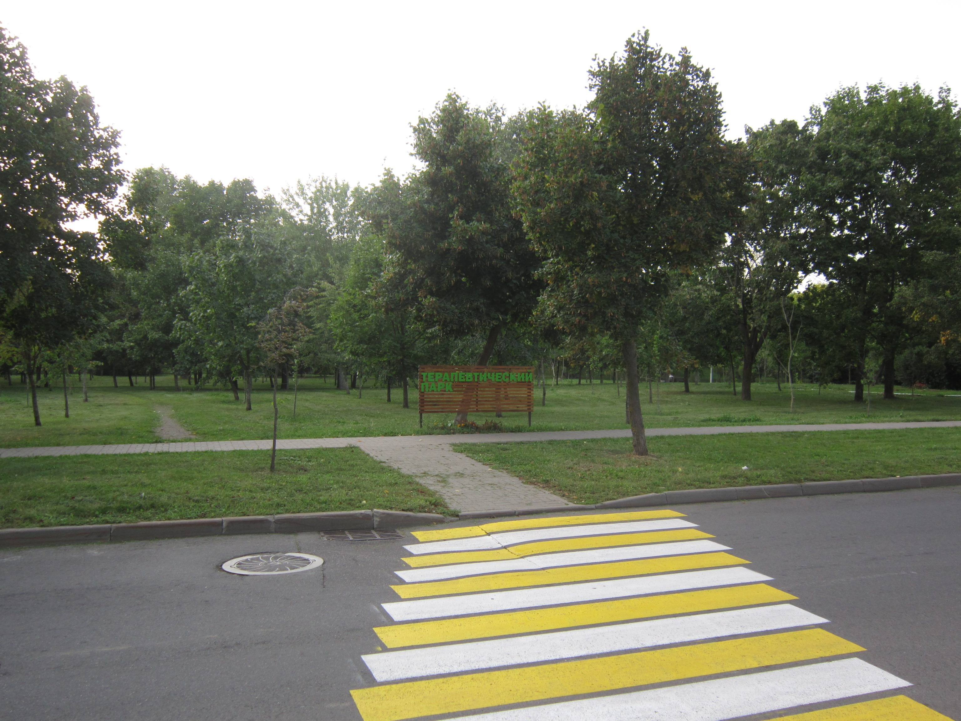 Therapeutic park in Minsk, Belarus, view from Klumava Lane